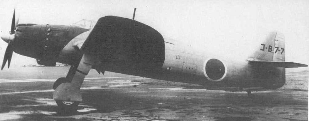 Aichi B7A Ryusei "Grace".